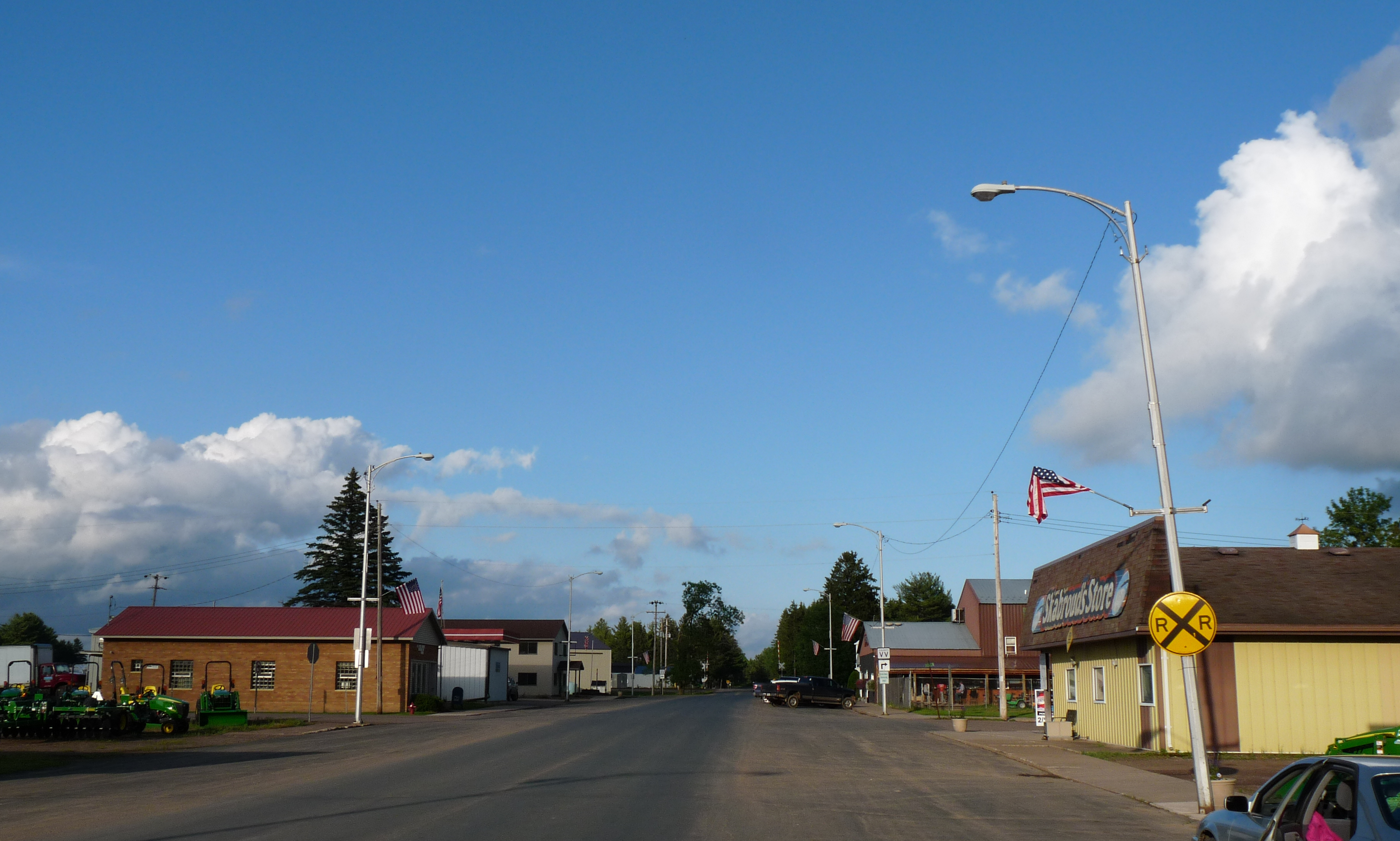 Sheldon is a village in northern Wisconsin. Photo is taken from the center of the main street, looking east toward the railroad track.